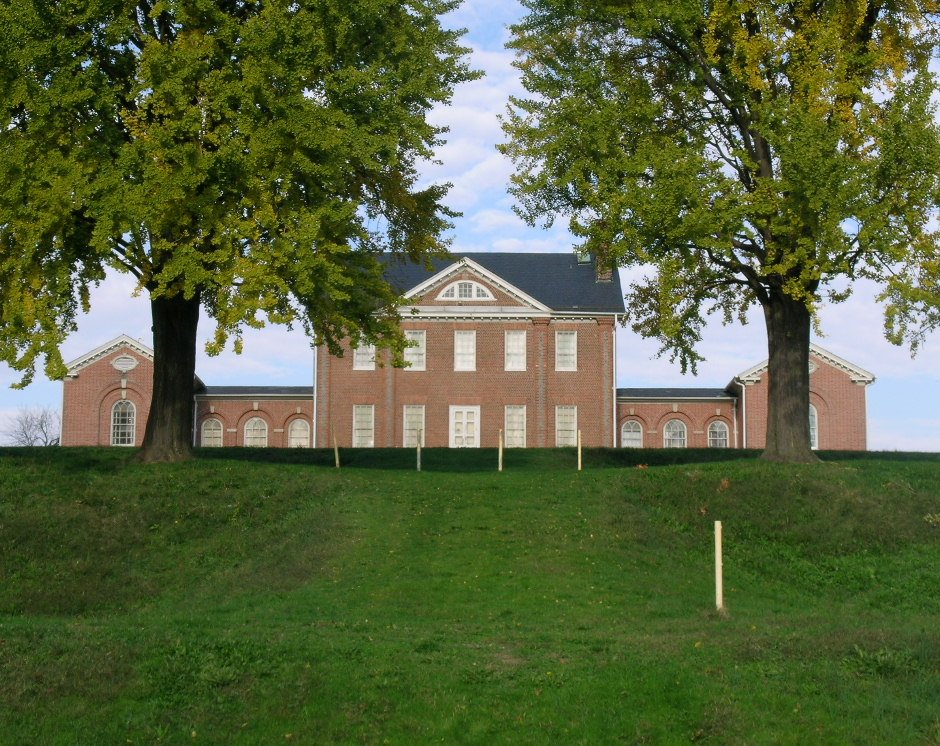 A rear view of the Mount Clare Museum House. It was built in 1763 by Charles Carroll the Barrister. The house is now used as a museum. It is the oldest Colonial structure in Baltimore.